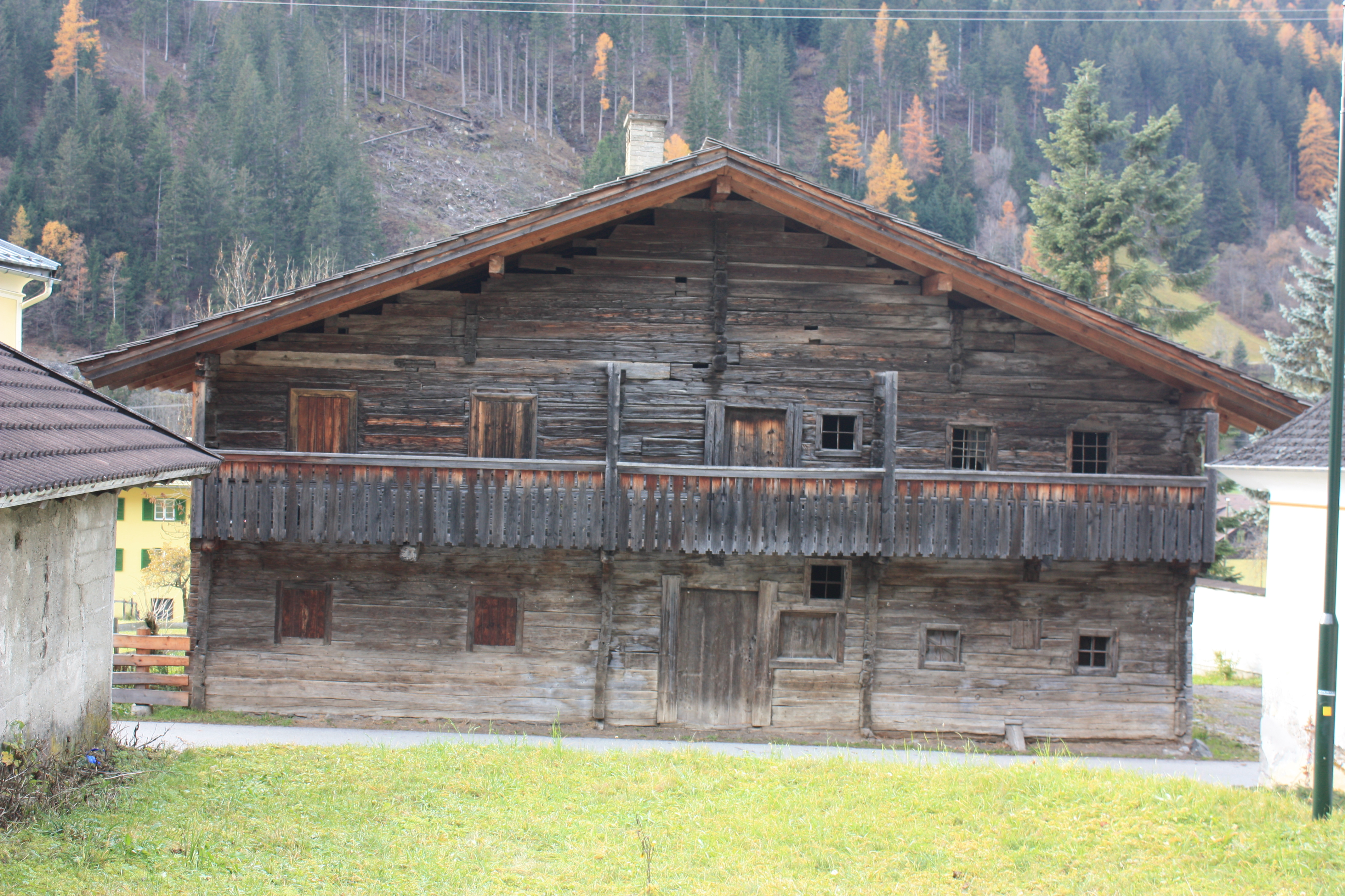 Farm house in Mörtschach